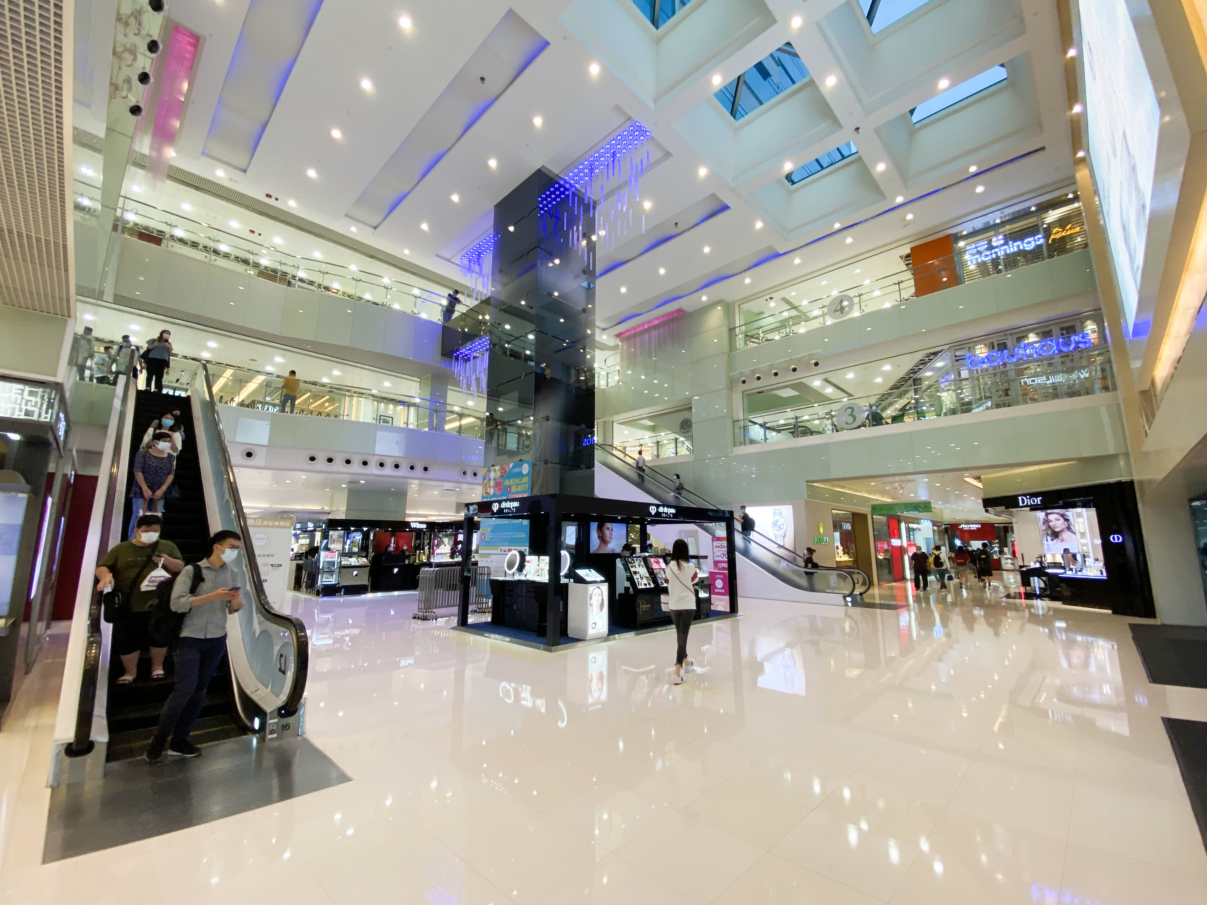 Landmark North Atrium